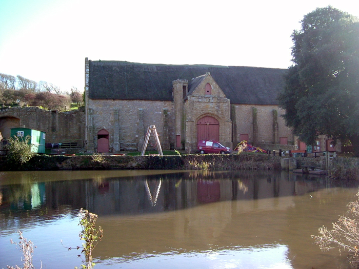 The Great Barn at Abbotsbury in Dorset.